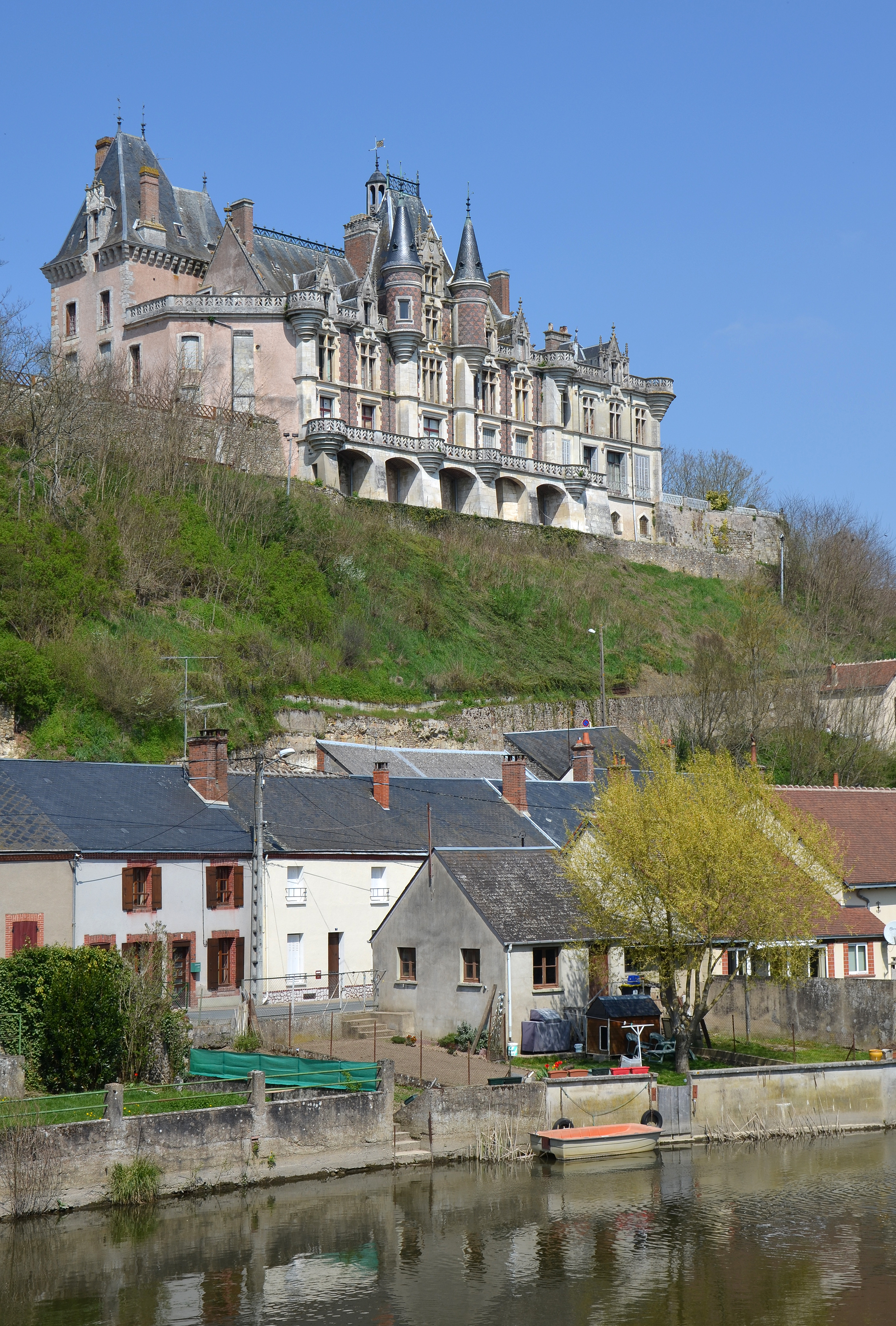 Castle of Montigny-le-Gannelon